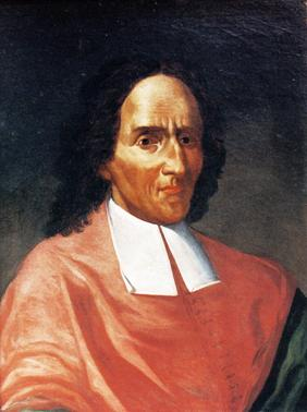 Probably after a painting by Francesco Solimena (1657–1747) Alternative namesbirth name: L' Abate CiccioDescriptionItalian painter and architectDate of birth/death4 October 16573 April 1747Location of birth/deathCanale di Serino bei Avellino (Kampanien)Barra bei NeapelWork periodBaroque eraWork locationNaples, Montecassino, RomAuthority control : Q736065 VIAF: 29802024 ISNI: 0000 0000 6632 624X ULAN: 500019310 LCCN: nr91043081 WGA: SOLIMENA, Francesco WorldCat destroyed in a fire in 1819.